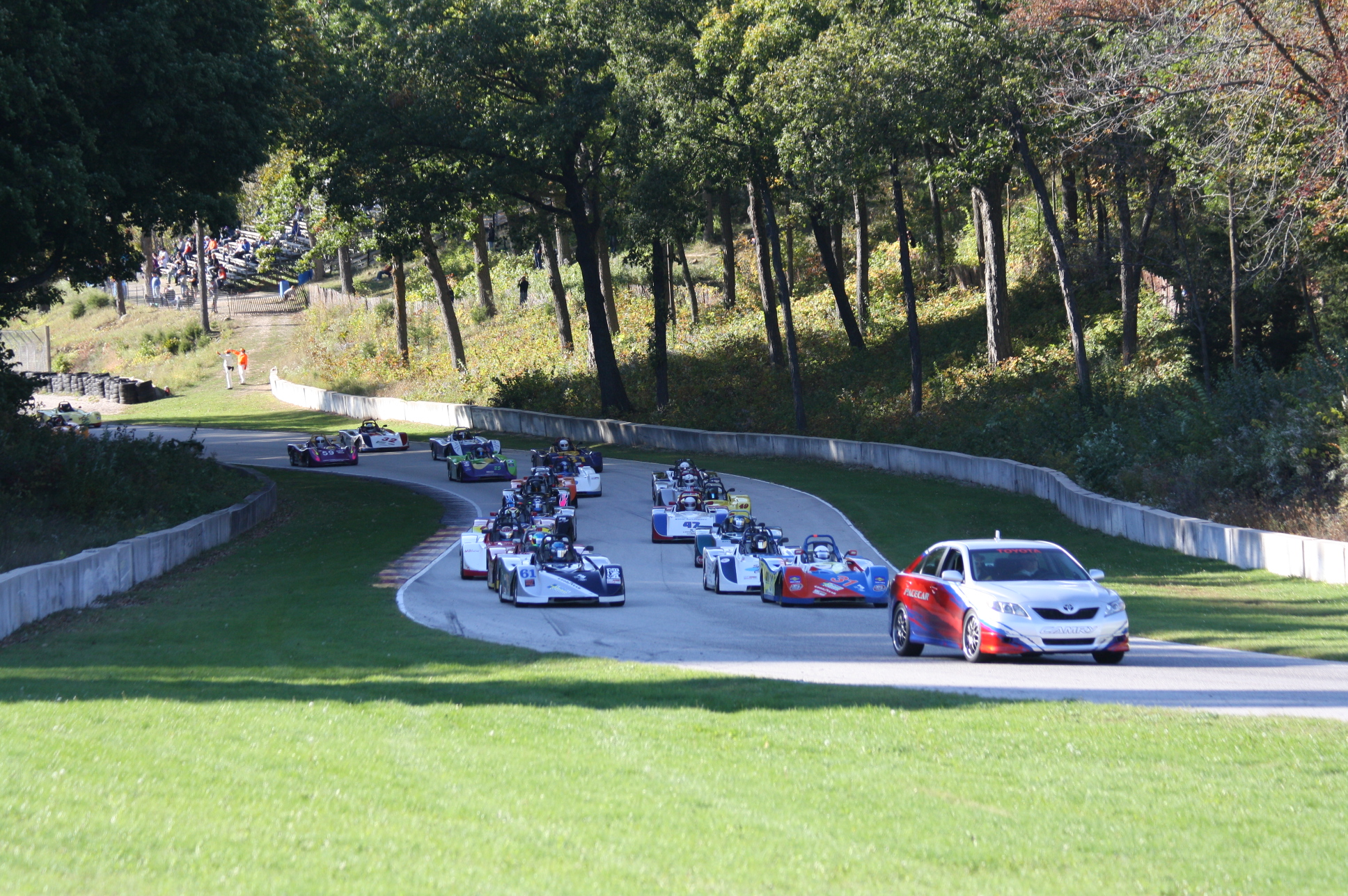 The SRF fieldc at the 2010 SCCA National Championship Runoffs.